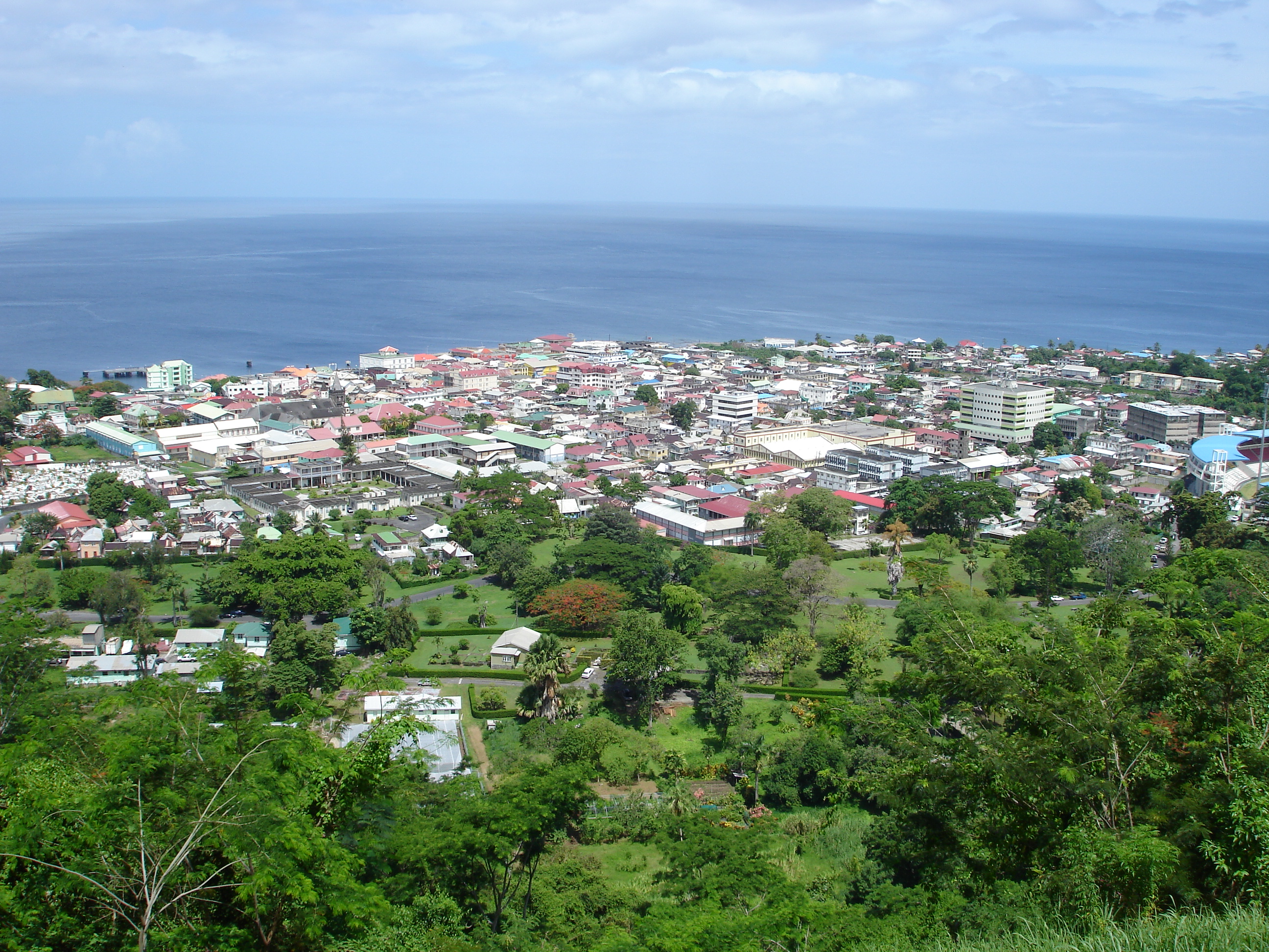 Roseau (Dominica).